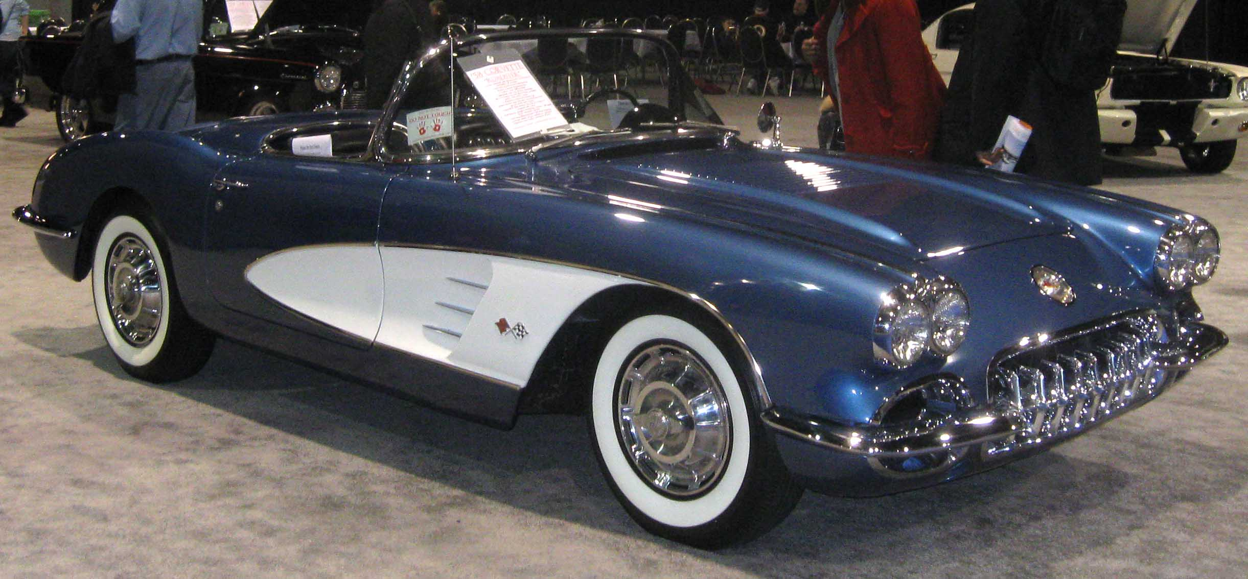 1958 Chevrolet Corvette photographed at the 2009 Washington DC Auto Show.